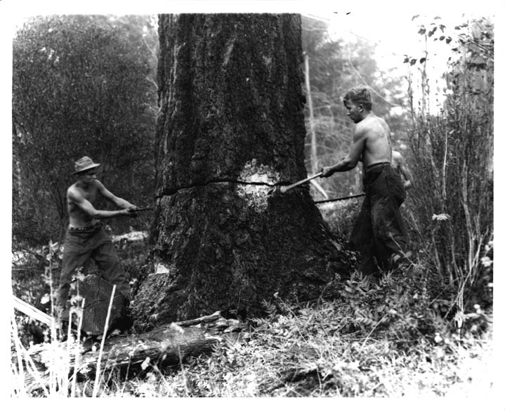 Felling Snag on Fire line around Coquille CCC.